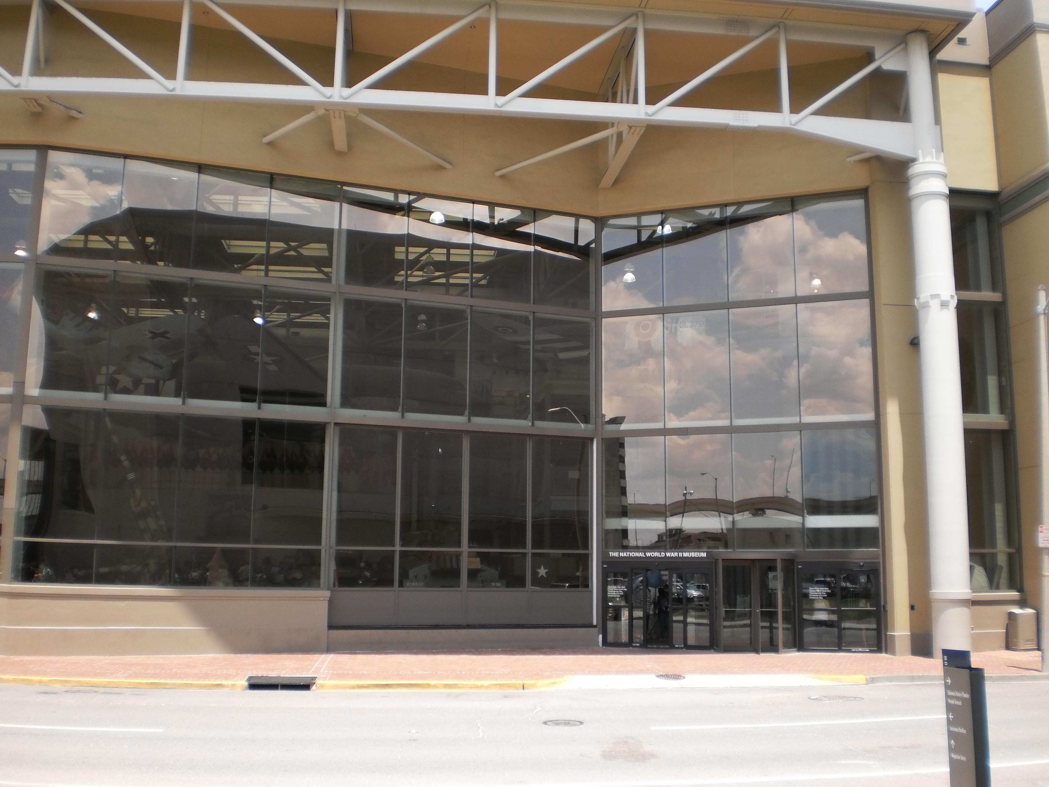 Main entrance on Andrew Higgins Boulevard, New Orleans, Louisiana